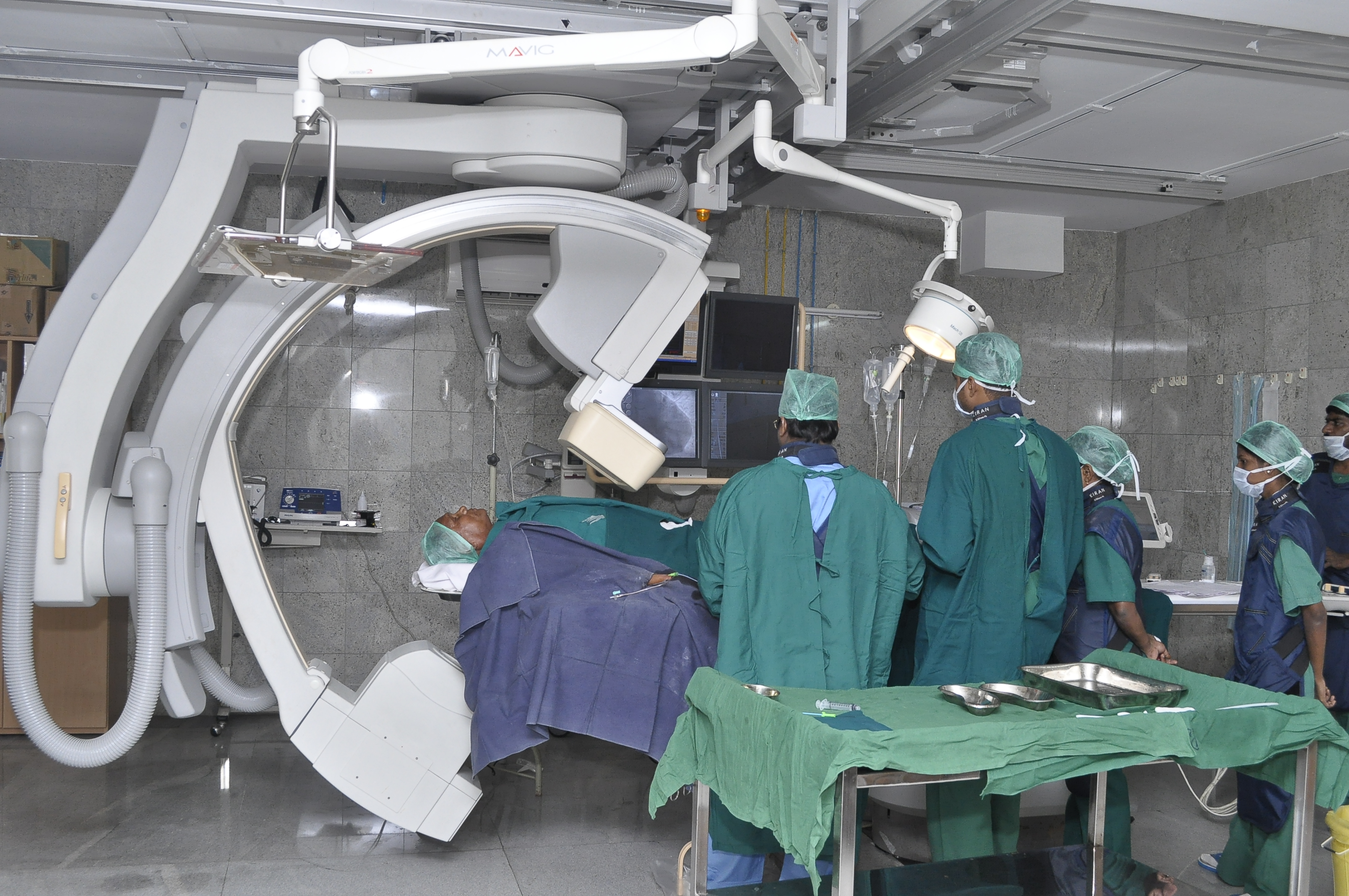 CathLab (Angiogram & Angioplasty)